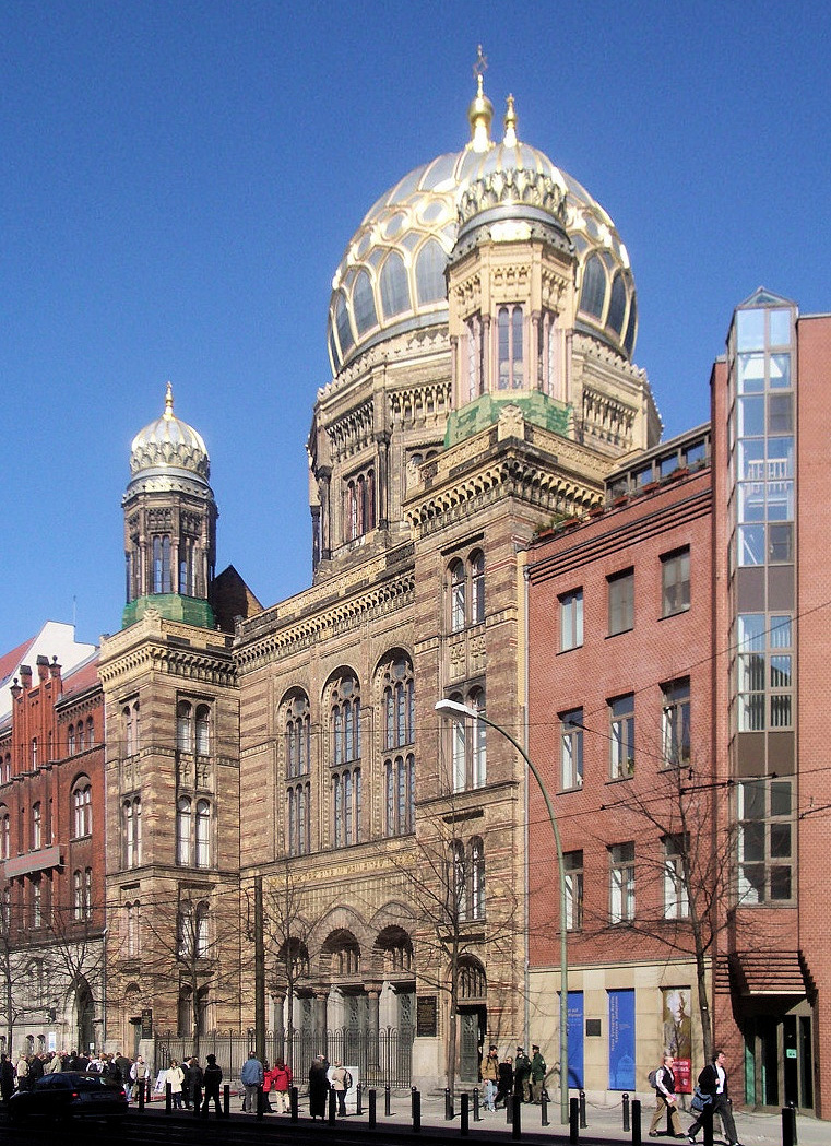 2005 Photo of Neue Synagoge by Eduard Knoblauch, built 1859-1866. Neue Synagoge in Berlin. Neue Synagoge in Berlin. The restored New Synagogue on Oranienburger Straße. The Berlin New Synagogue.